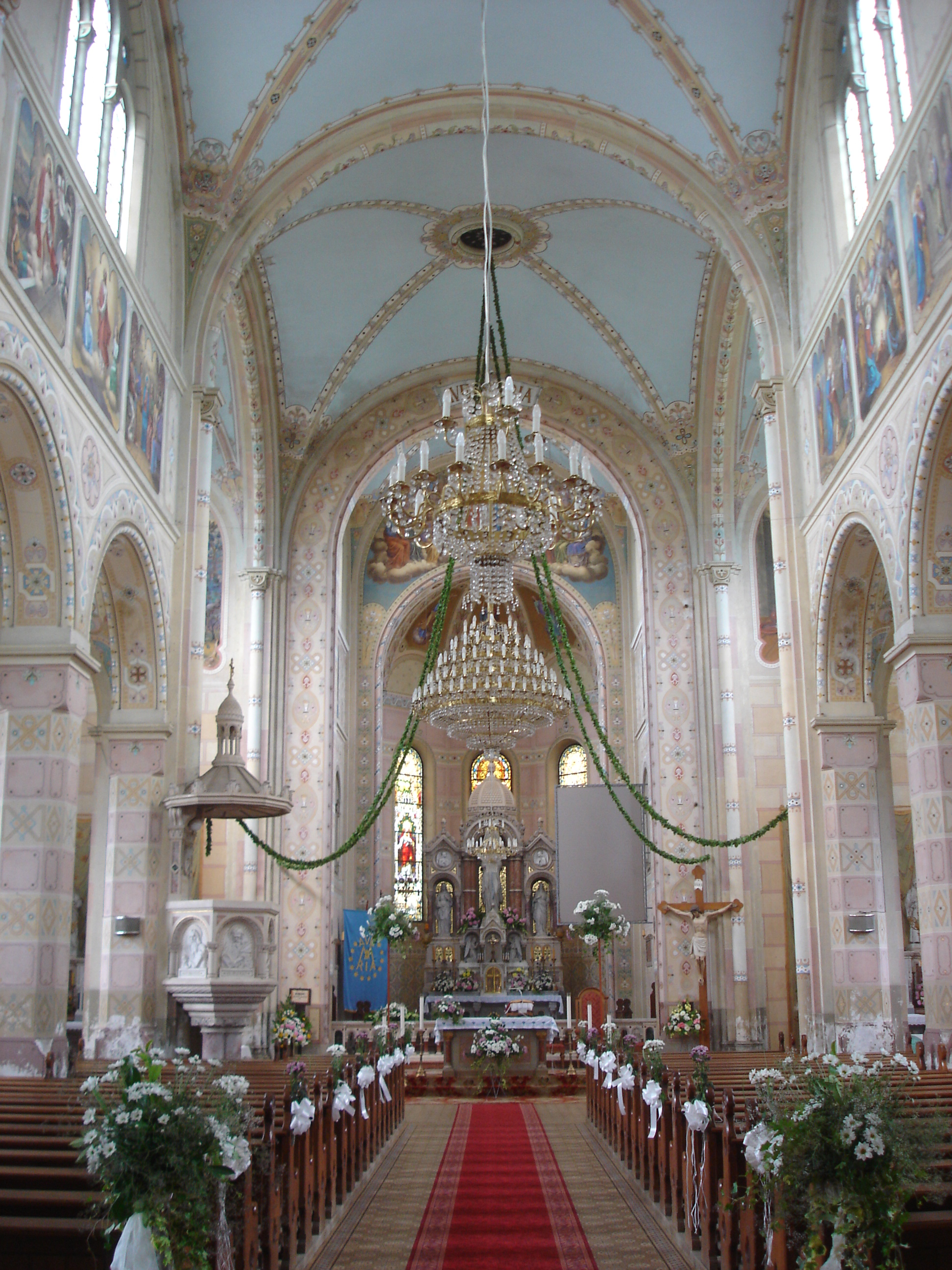 Basilica of Mary of Lourdes in Brestanica, Slovenia